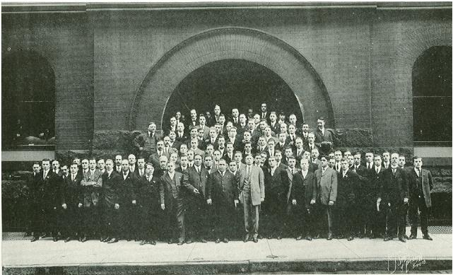 Beta Theta chapter of Sigma Chi at the University of Pittsburgh installation party